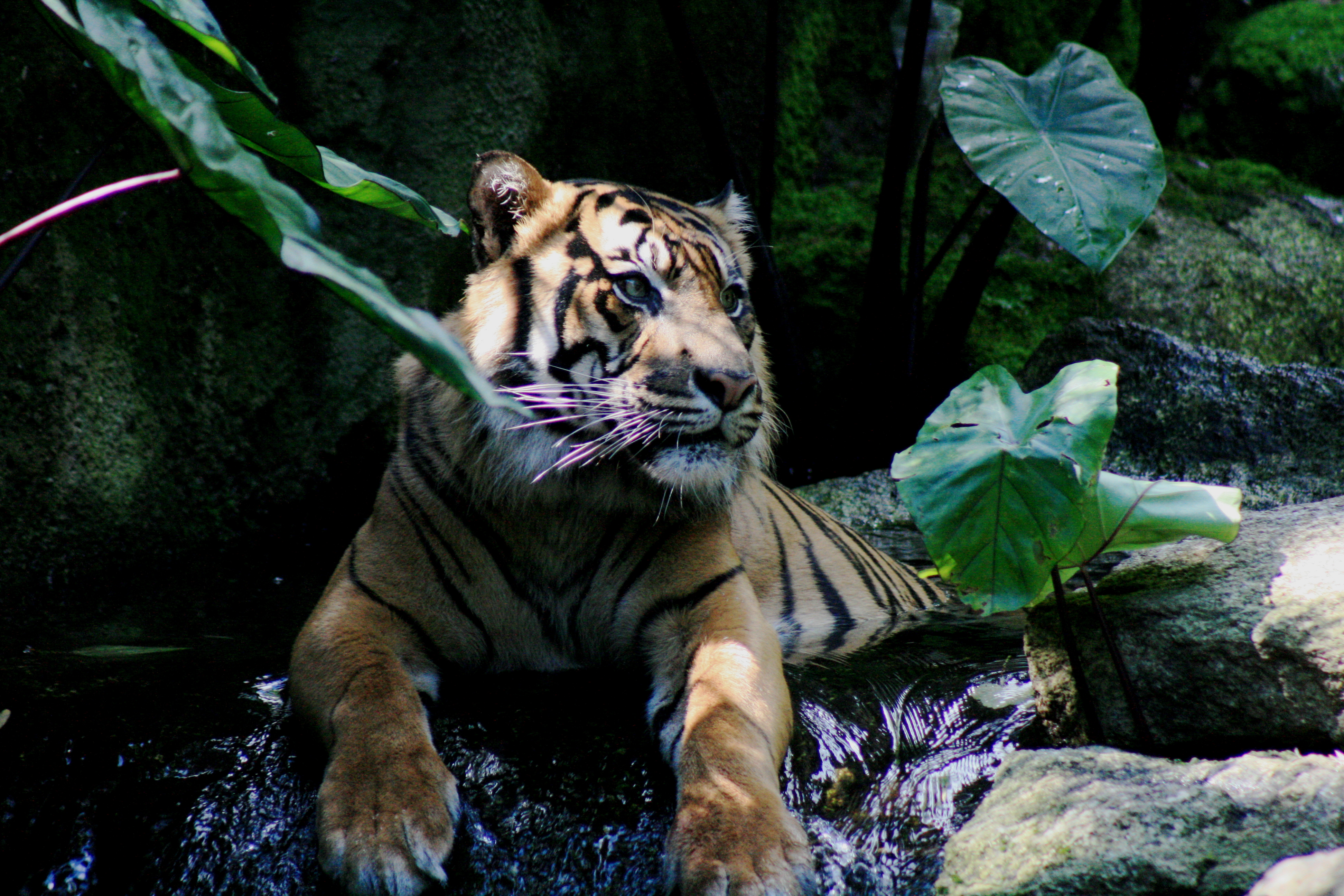 Sumatran Tiger at Melbourne Zoo